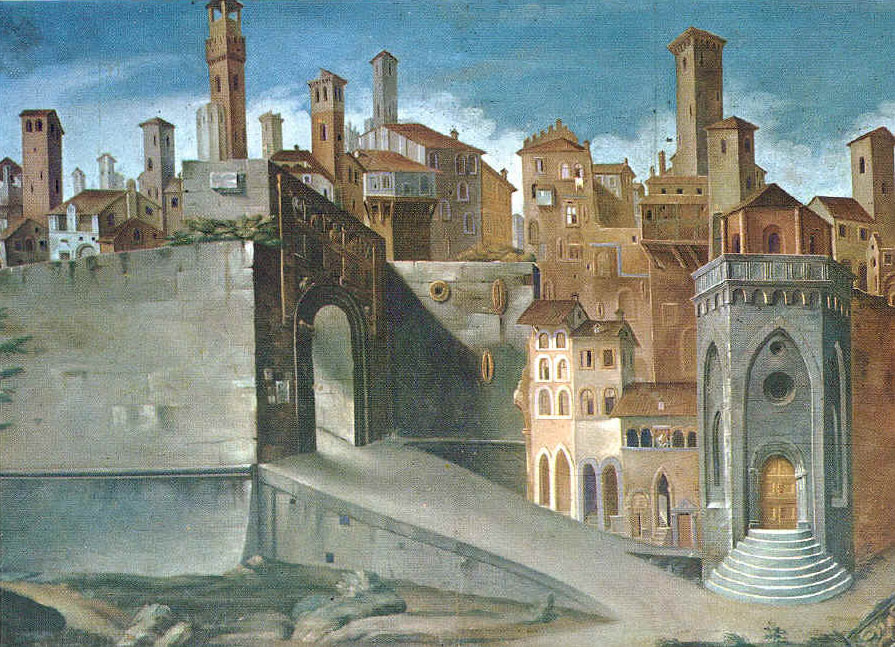 Perugia view, from the frescoes of Sant Ercolano and San Ludovico (1454)